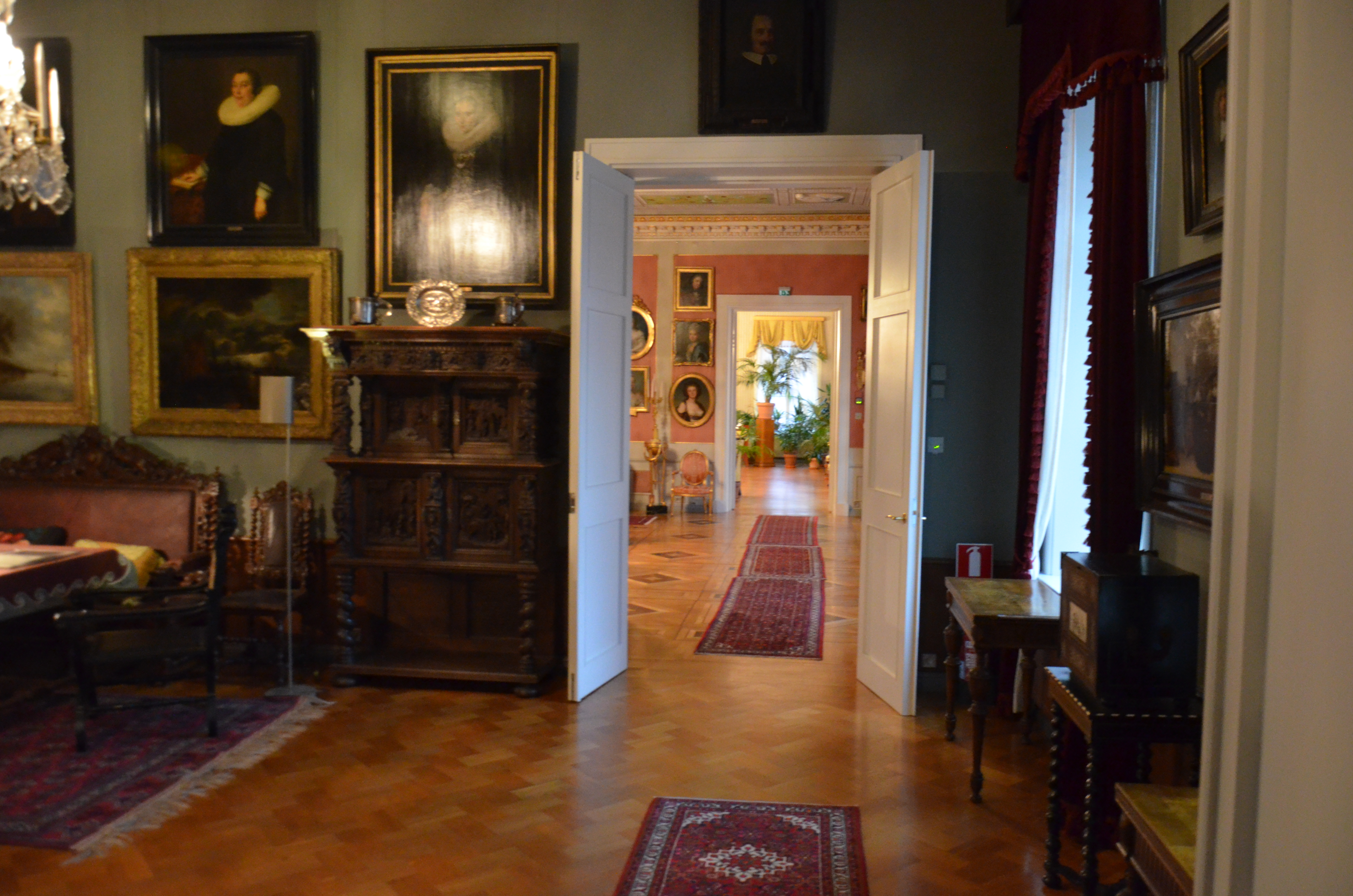 Rumsfil, Sinebrychoff konstmuseum